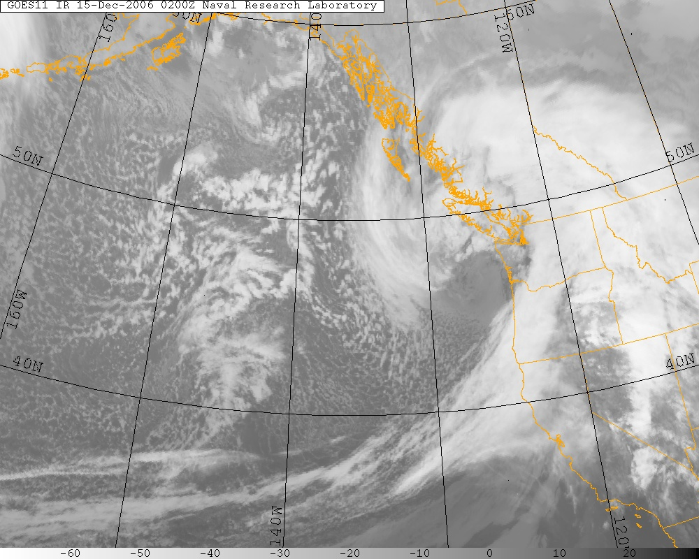 Infrared satellite image provided by the US Naval Research Labortory taken on December 24, 2006 at 6pm PST.